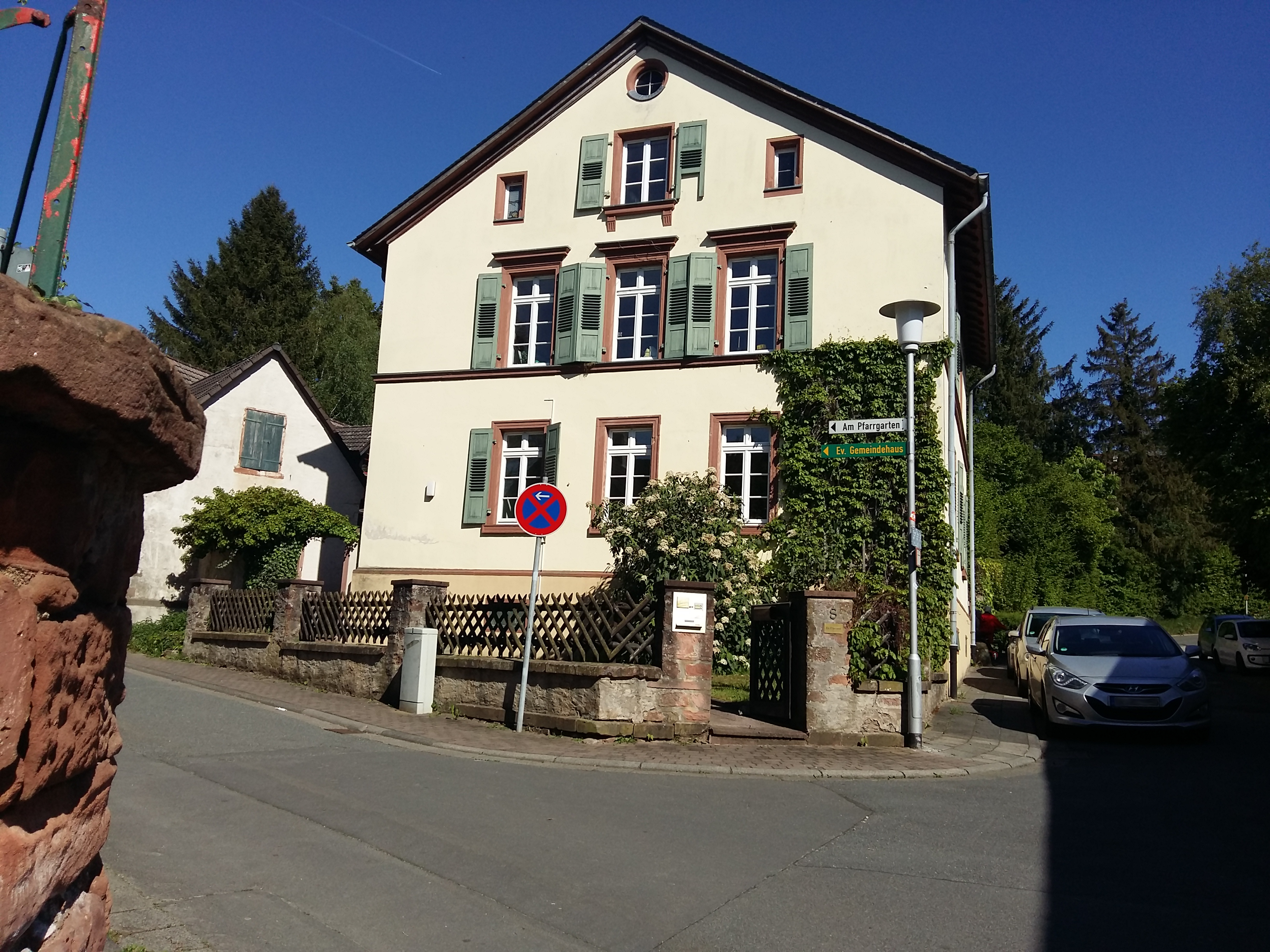 Rectory of the protestant comunity in Reinheim-Ueberau